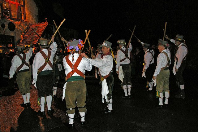 Prelude to a Wassail The tradition of wassailing of John Bacheldor’s apples begins with the Broadwood Morris Men performing outside the White Horse in Maplehurst this is then followed by a 305984 to the orchard.